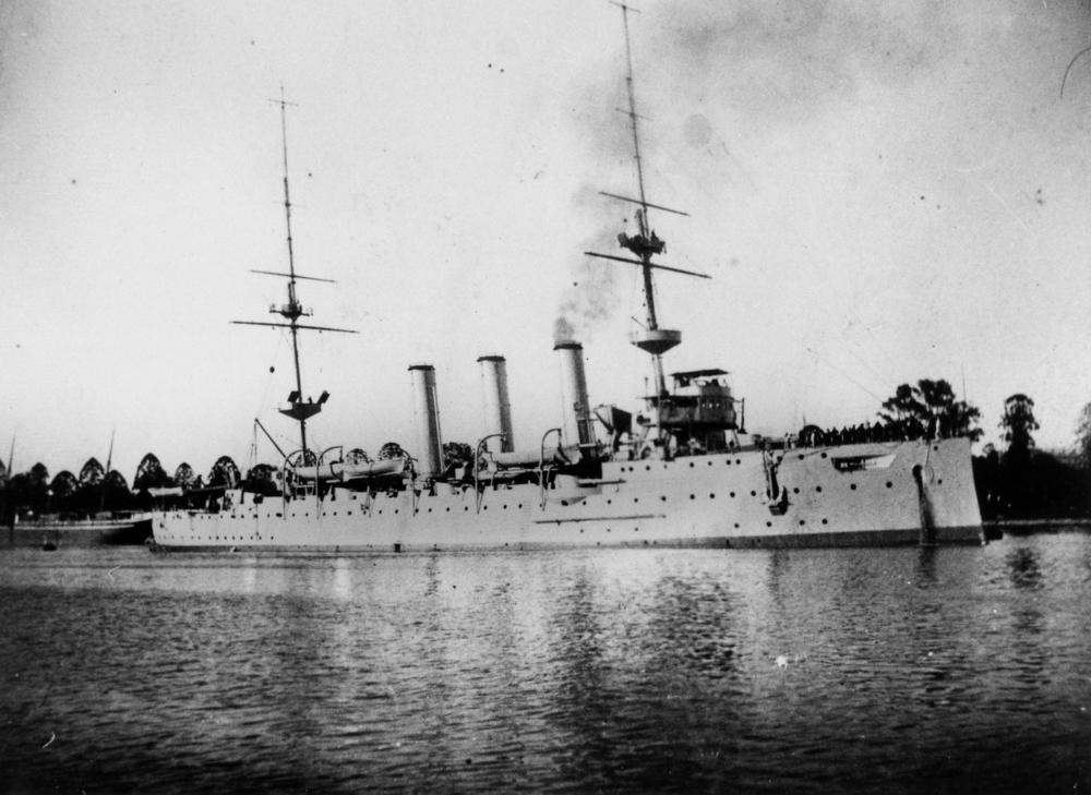 Encounter (ship)